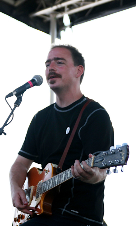 Shot for